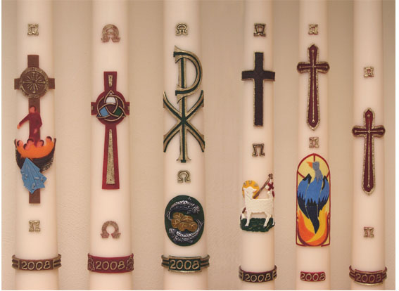 Some Paschal candles (Holland).